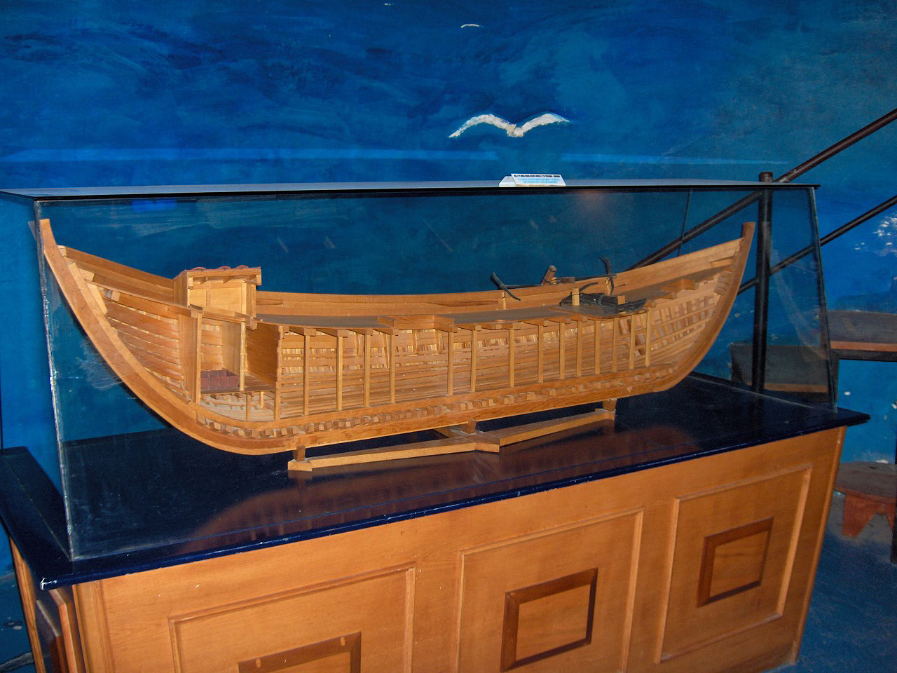 Replica of the Yassiada shipwreck from Byzantine times (7th c.), St. Peter's castle; Bodrum, Turkey